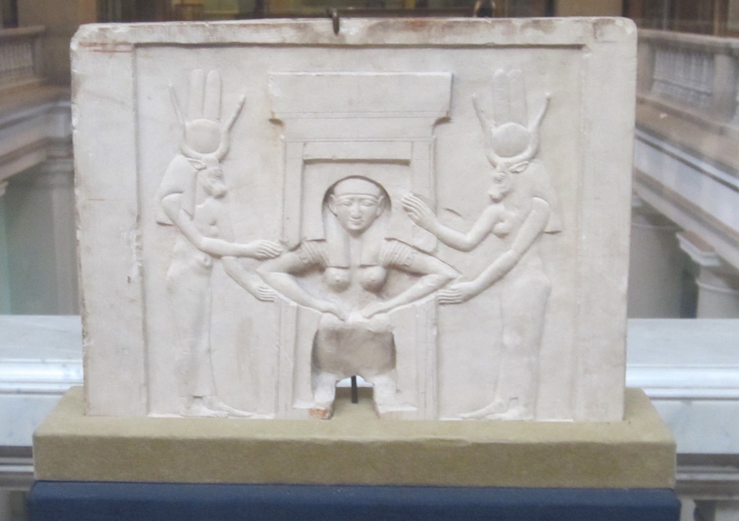 Ptolemaic plaque found at Dendera, showing a woman giving birth with the assistance of two cow-headed goddesses, both representing Hathor.